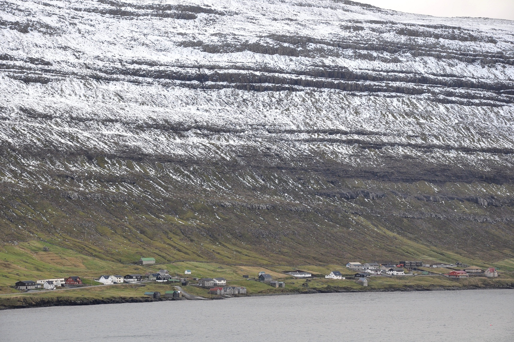 The village of Norðoyri on the island of Borðoy (Faroe Islands) as seen from Niðan Horn (a street in Klaksvík).